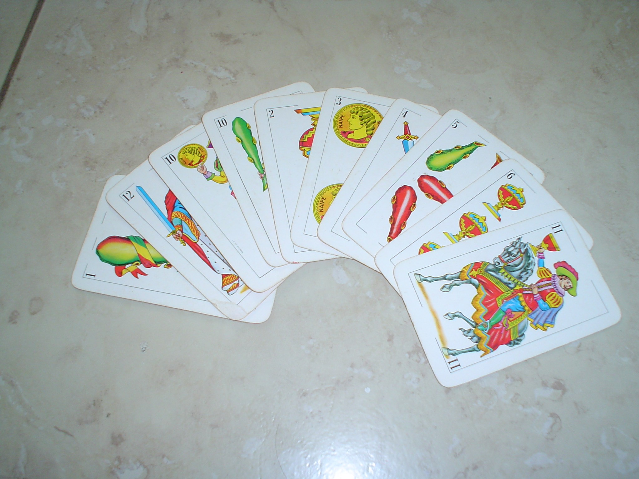 I took this picture of a spanish deck of cards.